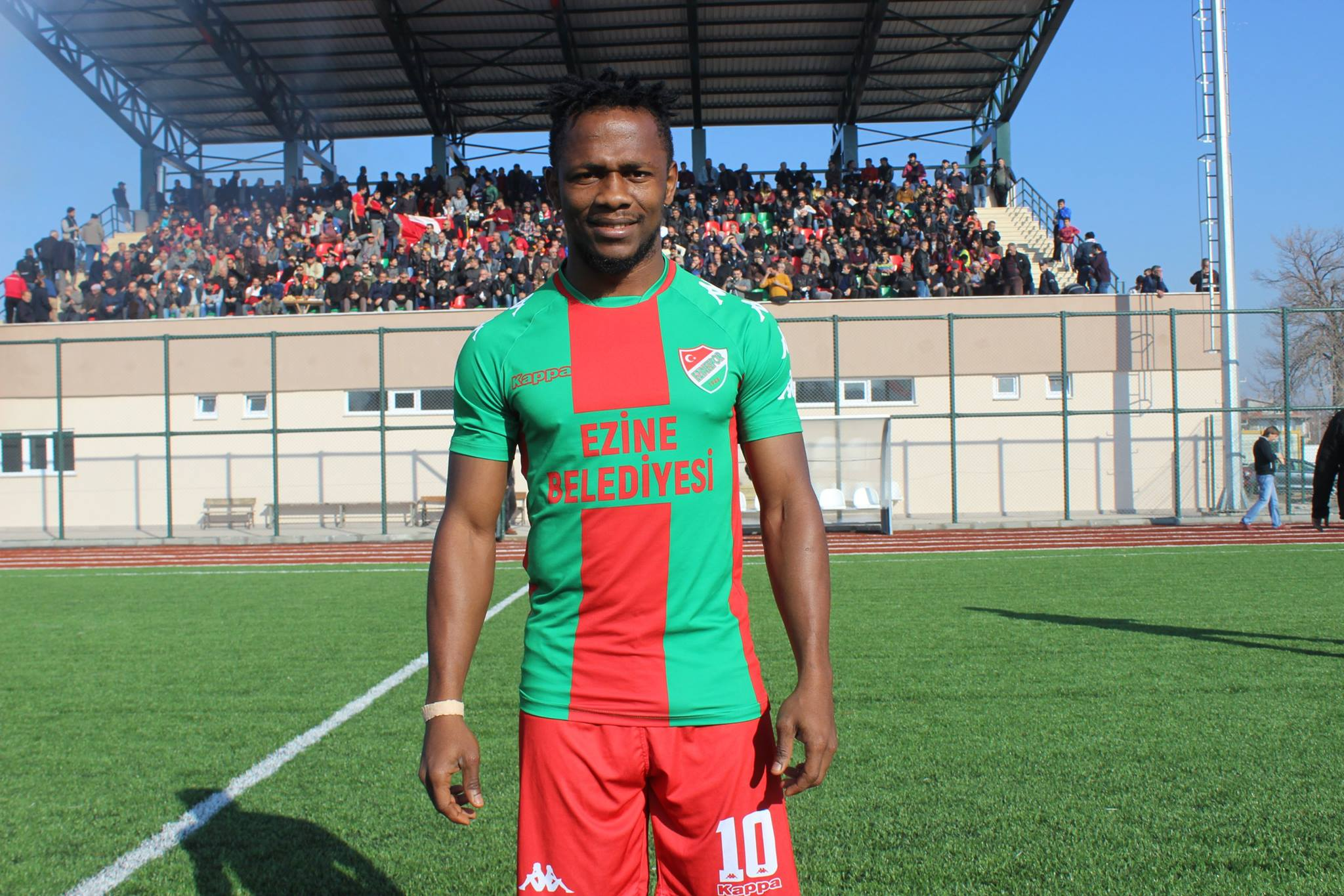 professional football player